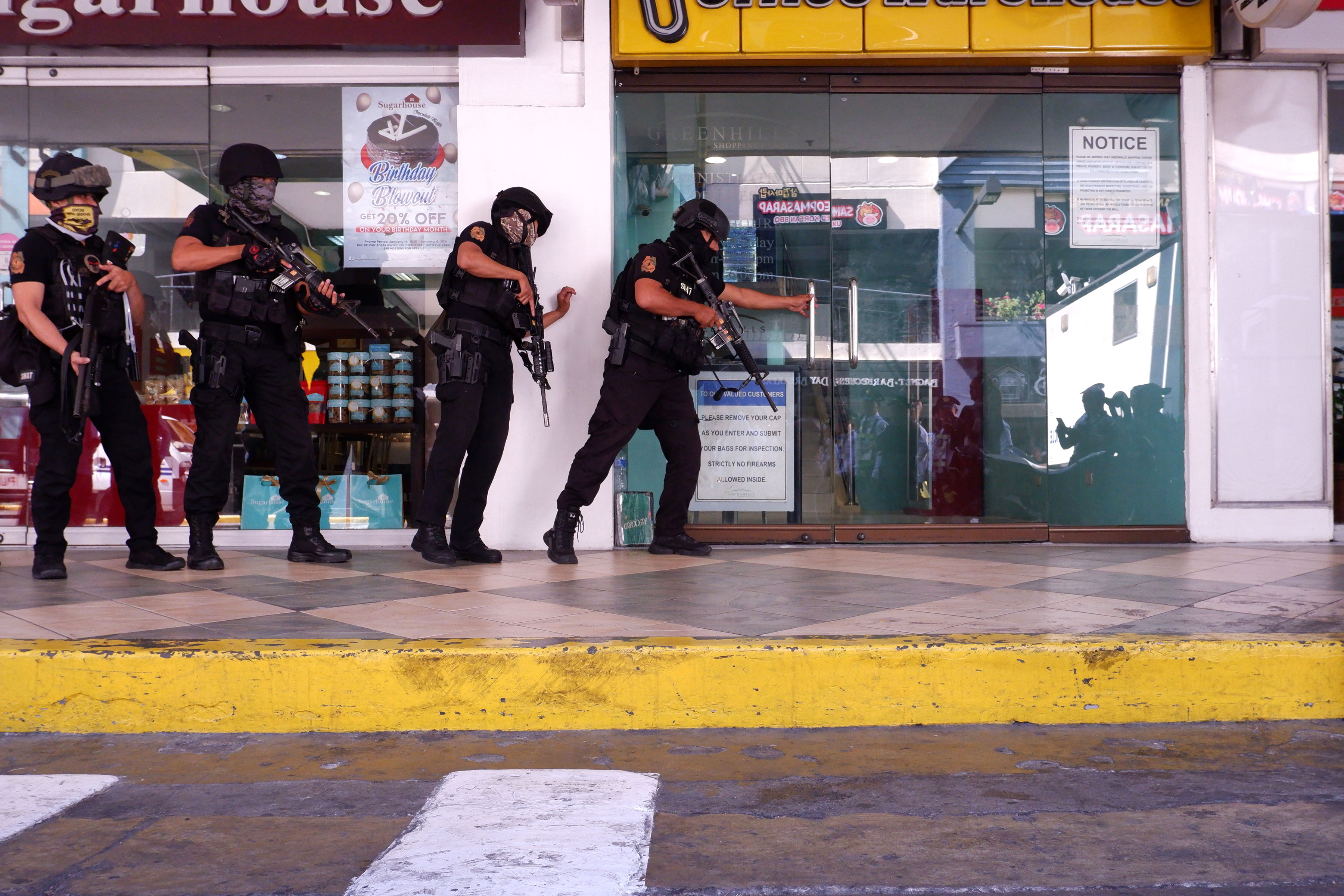 Members of the Philippine National Police (PNP) Special Weapons And Tactics (SWAT) team take positions in one of the entrances of the mall during the hostage-taking at Virra Mall in Greenhills, San Juan City on Monday (March 2, 2020). Police said disgruntled former security guard Archie Paray held hostage around 30 persons inside the mall. After almost eight hours, the security guard surrendered to authorities Monday night. (PNA photo by Robert Oswald P. Alfiler)